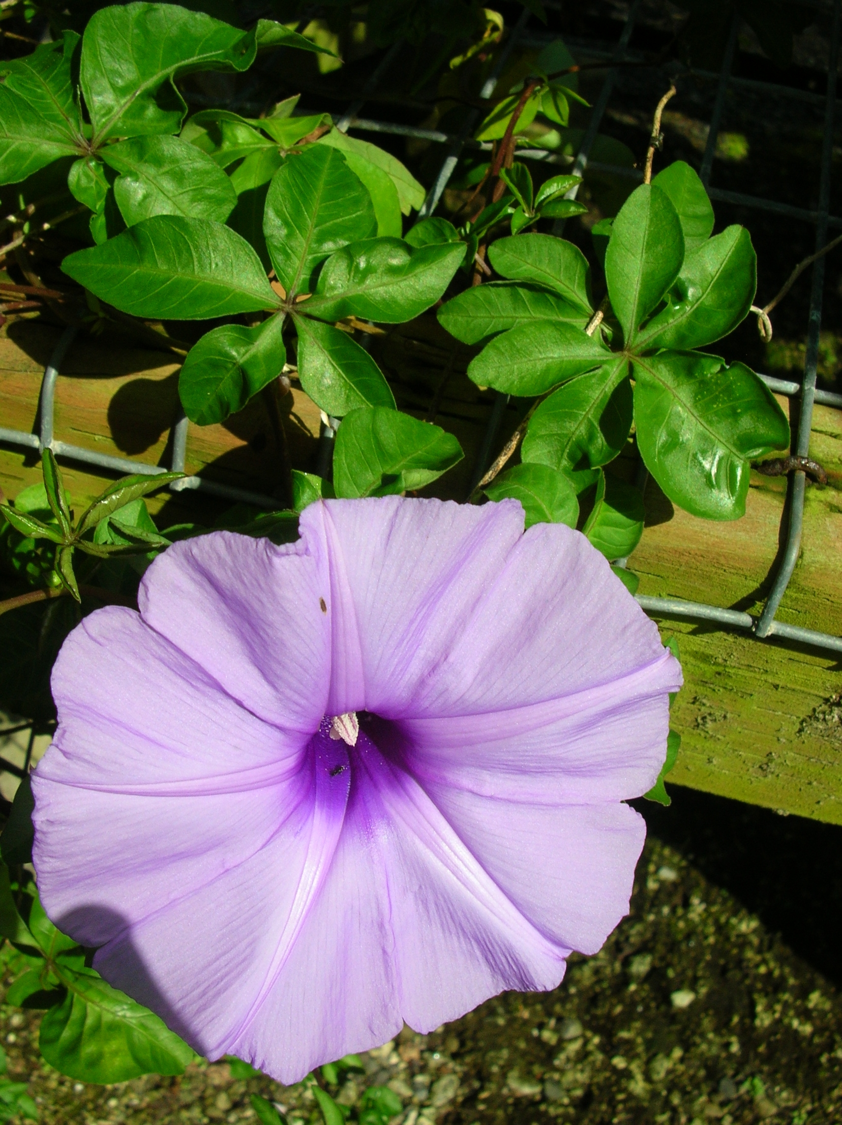 Ipomoea cairica (flower). Location: Maui, Maui Nui Botanical Garden